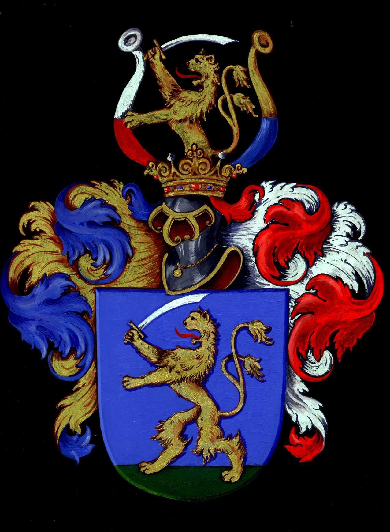 Osváth (de Thorna) coat of arms.